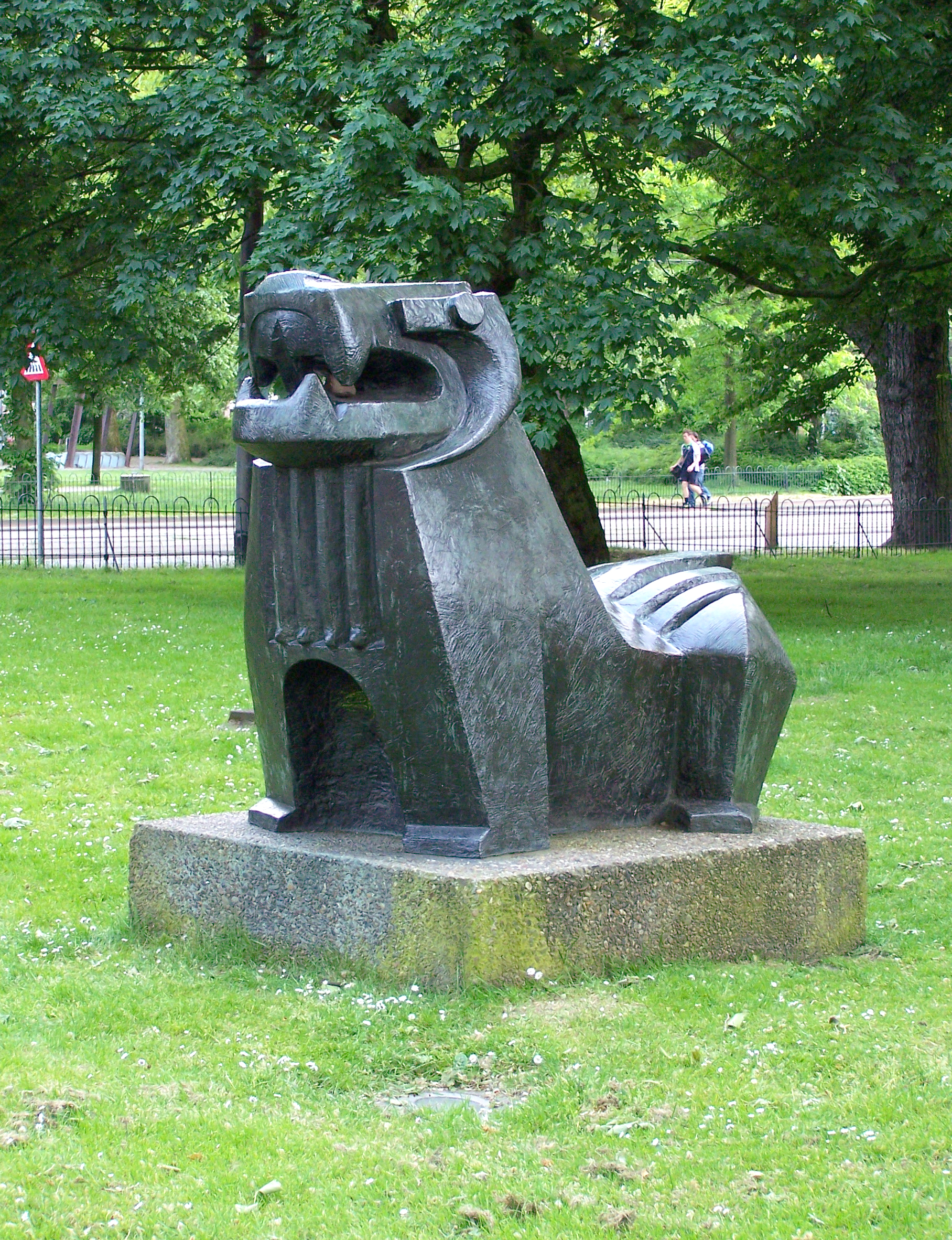 Sculpture "Droombeeld" by Cephas Stauthamer in 1965, placed at the Frederik Hendrikplantsoen in Amsterdam.